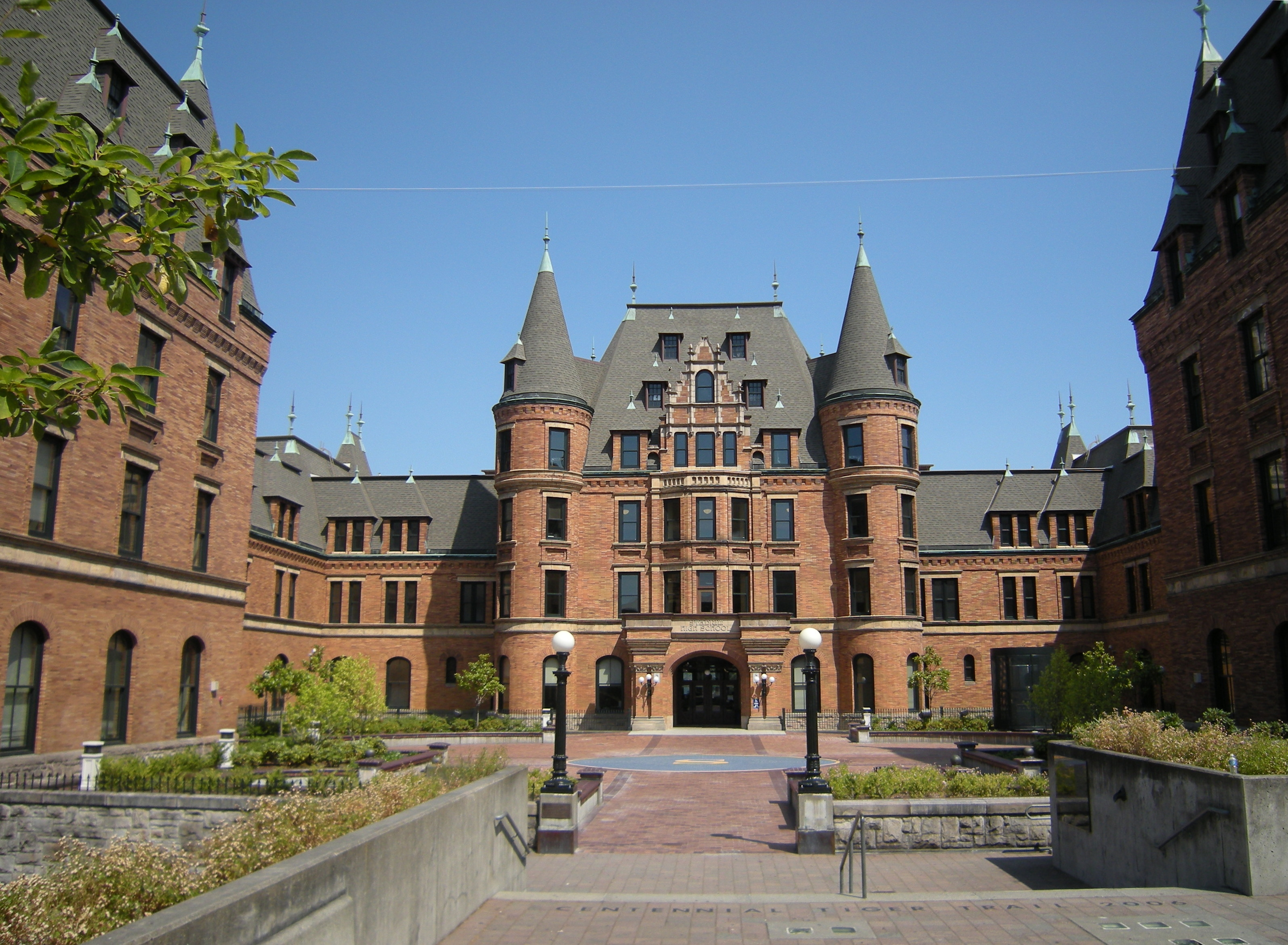 Stadium High School, Tacoma, Washington, with the eponymous stadium in foreground.